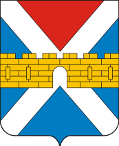 Coat of Arms of Krymsk (2007)